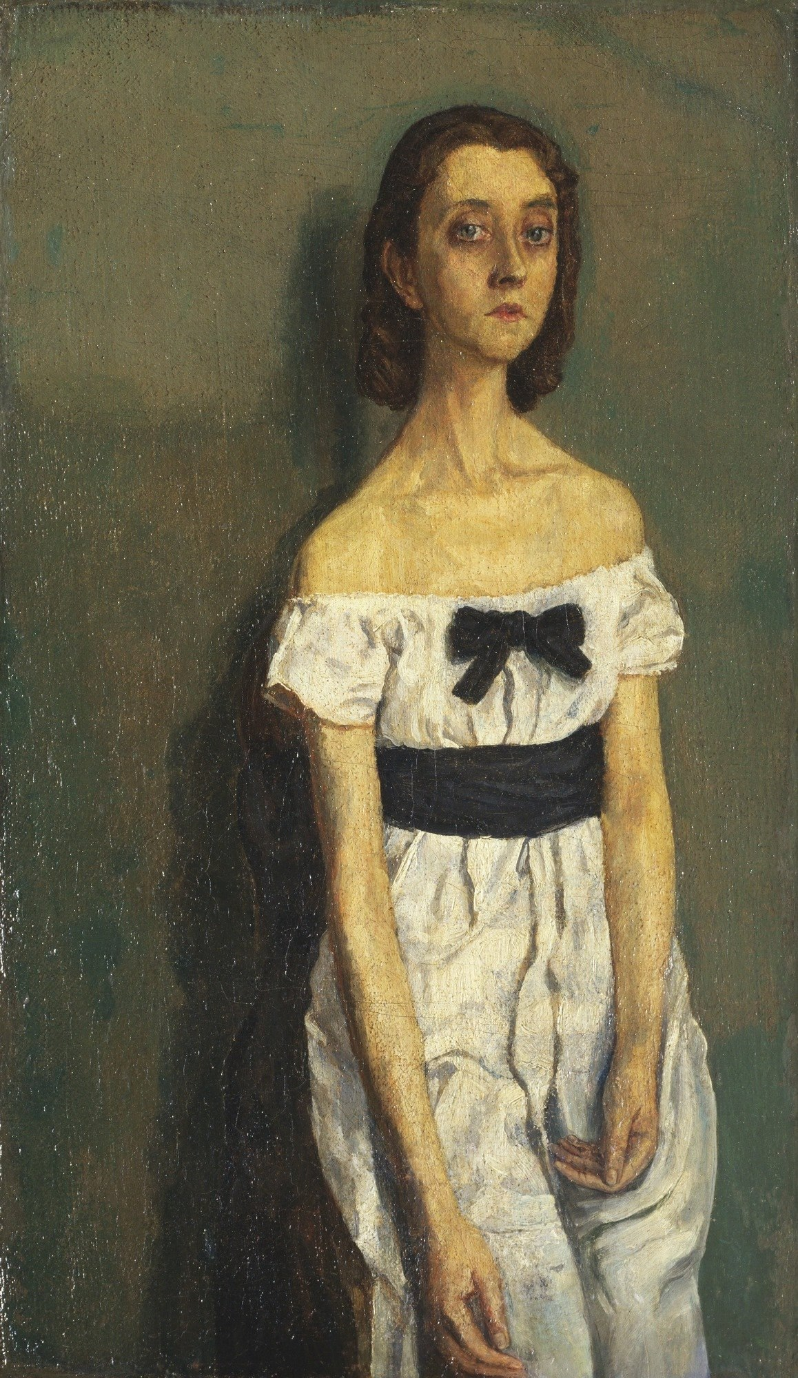 Girl with Bare Shoulders (Fenella Lovell)